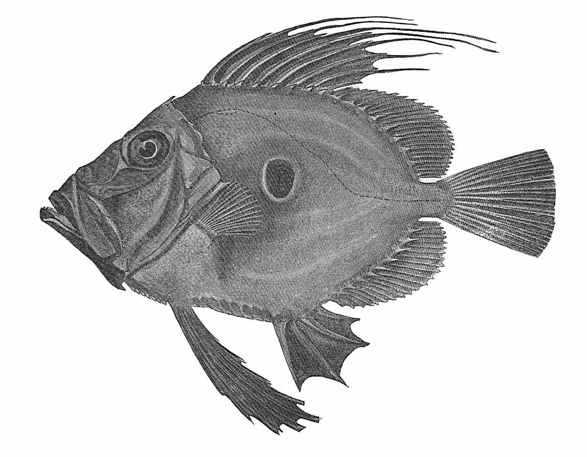 John Dory, Zeus faber Fig 366, in Jordan, David Starr (1907) Fishes, New York City, NY: Henry Holt and Company, after cropping, flipping, sharpening and cleaning up the background